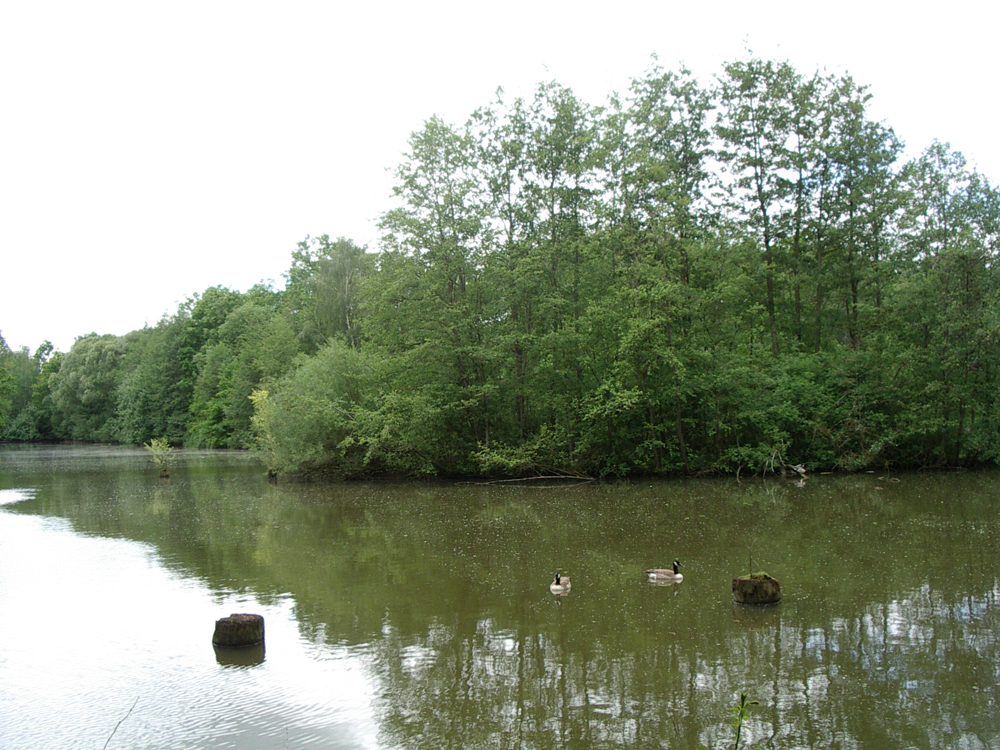 Hainberg near Nürnberg